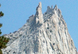 Picture of Cathedral Peak — a granite rock formation in Yosemite National Park. Taken by myself.